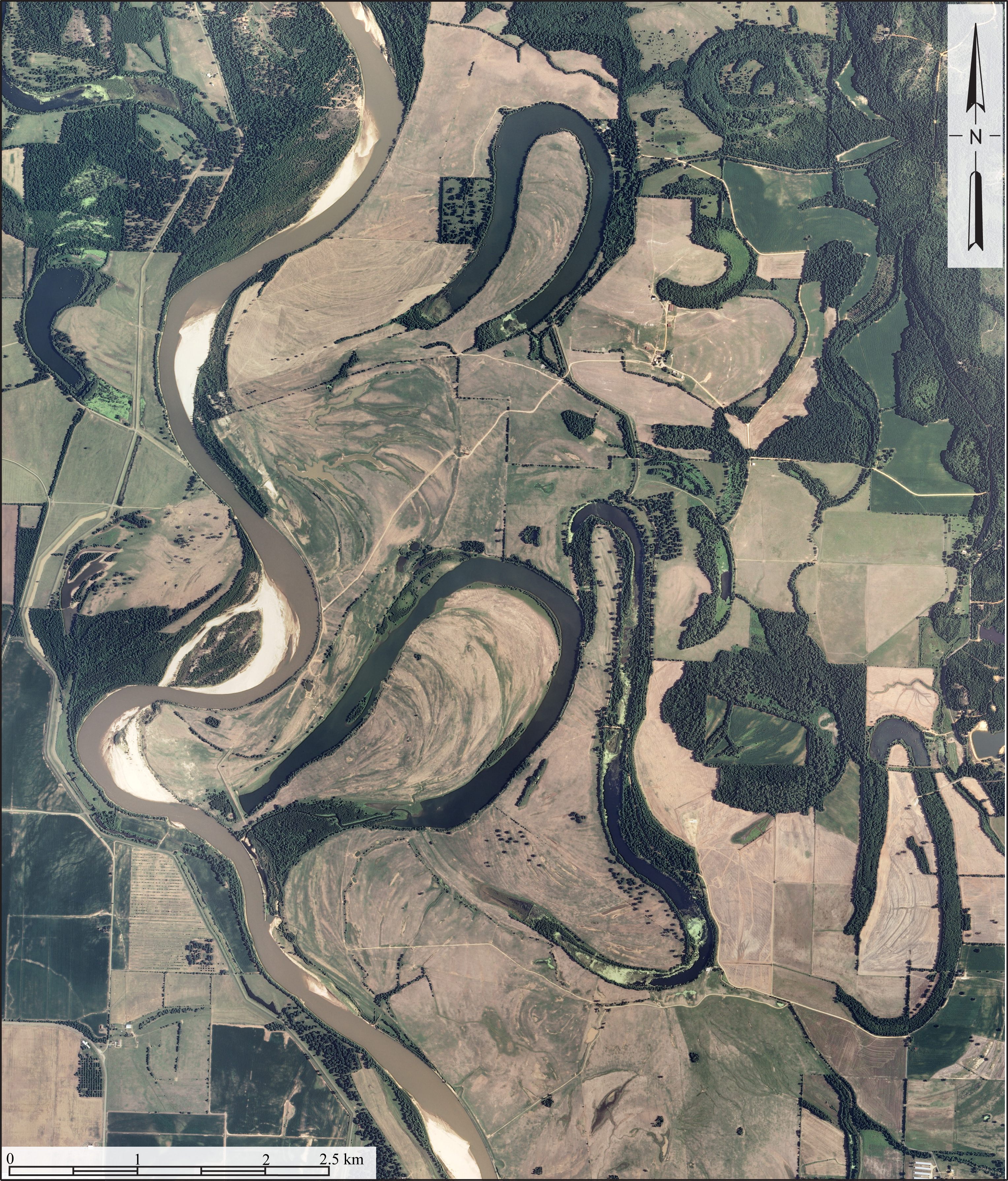 Aerial photograph of meandering course of Red River in Lafayette and Miller counties, Arkansas. It shows point bars, abandoned meander loops, ox bow lakes, and ridge and swale topography associated with the active course of the Red River. Credits Created from USDA/FSA Aerial Photography Field Office 2010 NAIP digital aerial orthophoto mosaic for Lafayette County, Arkansas. latitude 33° 26’ 10.16”, longitude -93° 42’ 48.94”